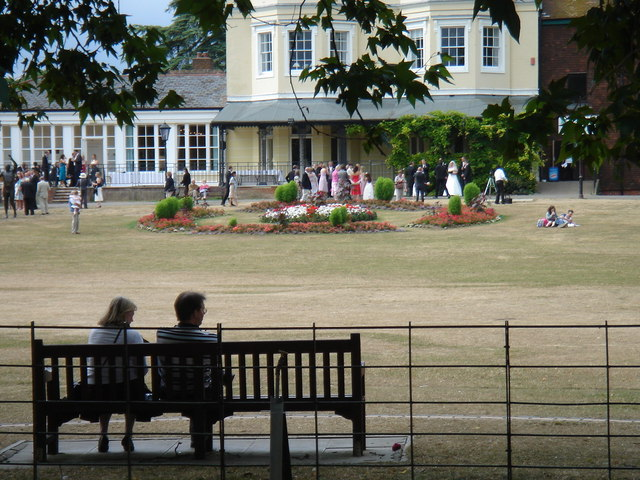 Summer wedding Court Garden Marlow There were three weddings in Marlow on that August Saturday